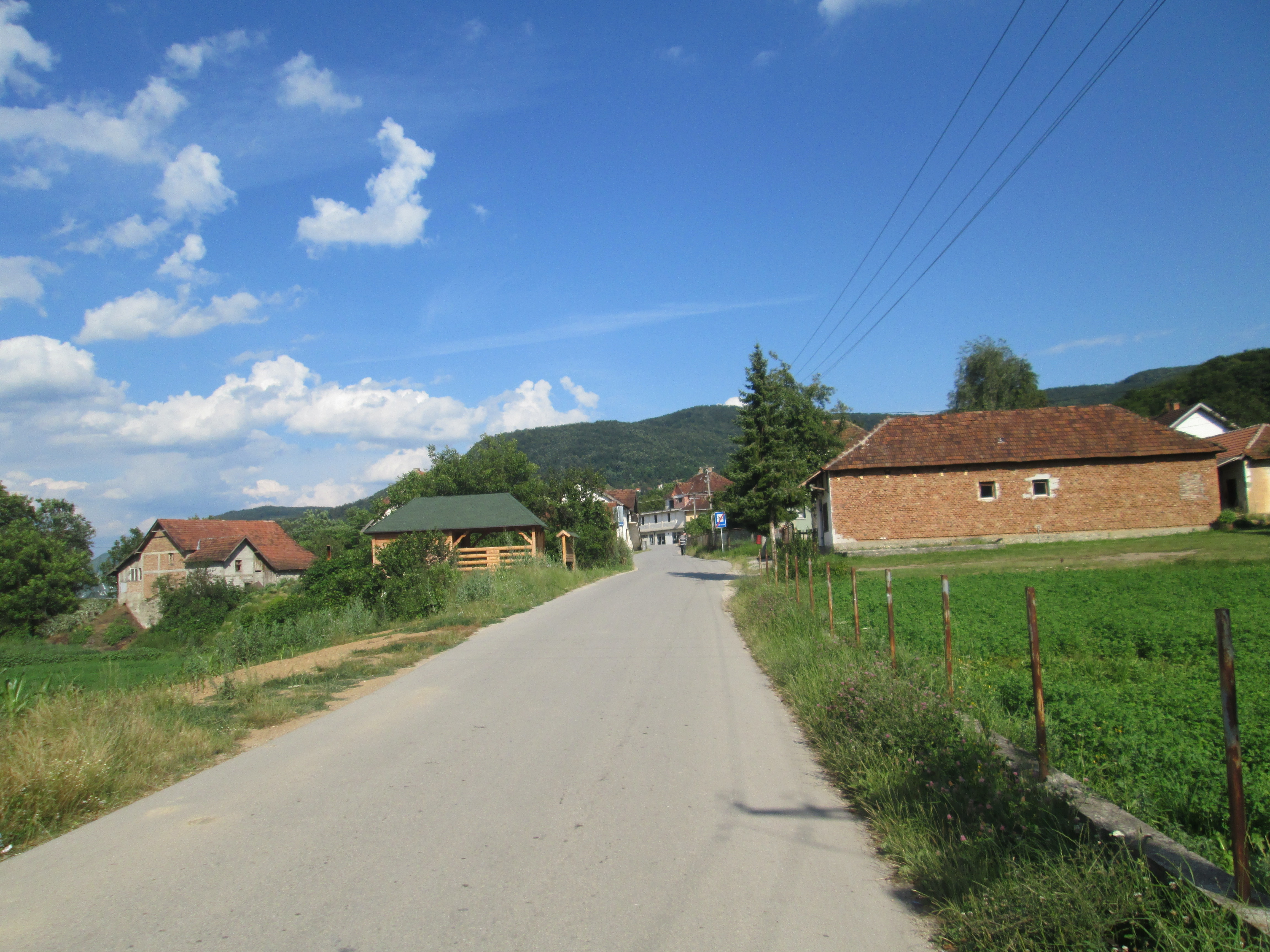 View over the village, Zlakusa Српски (ћирилица): Поглед на село, Злакуса